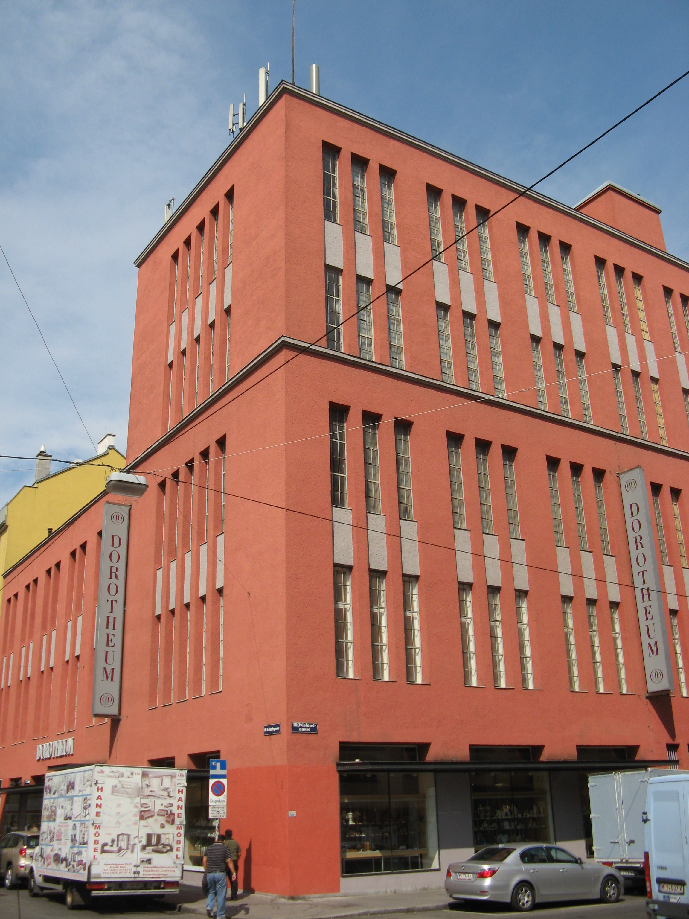 Dorotheum (1928/29) von Michael Rosenauer, Erlachgasse 90, Wien-Favoriten (More images, commons, de)